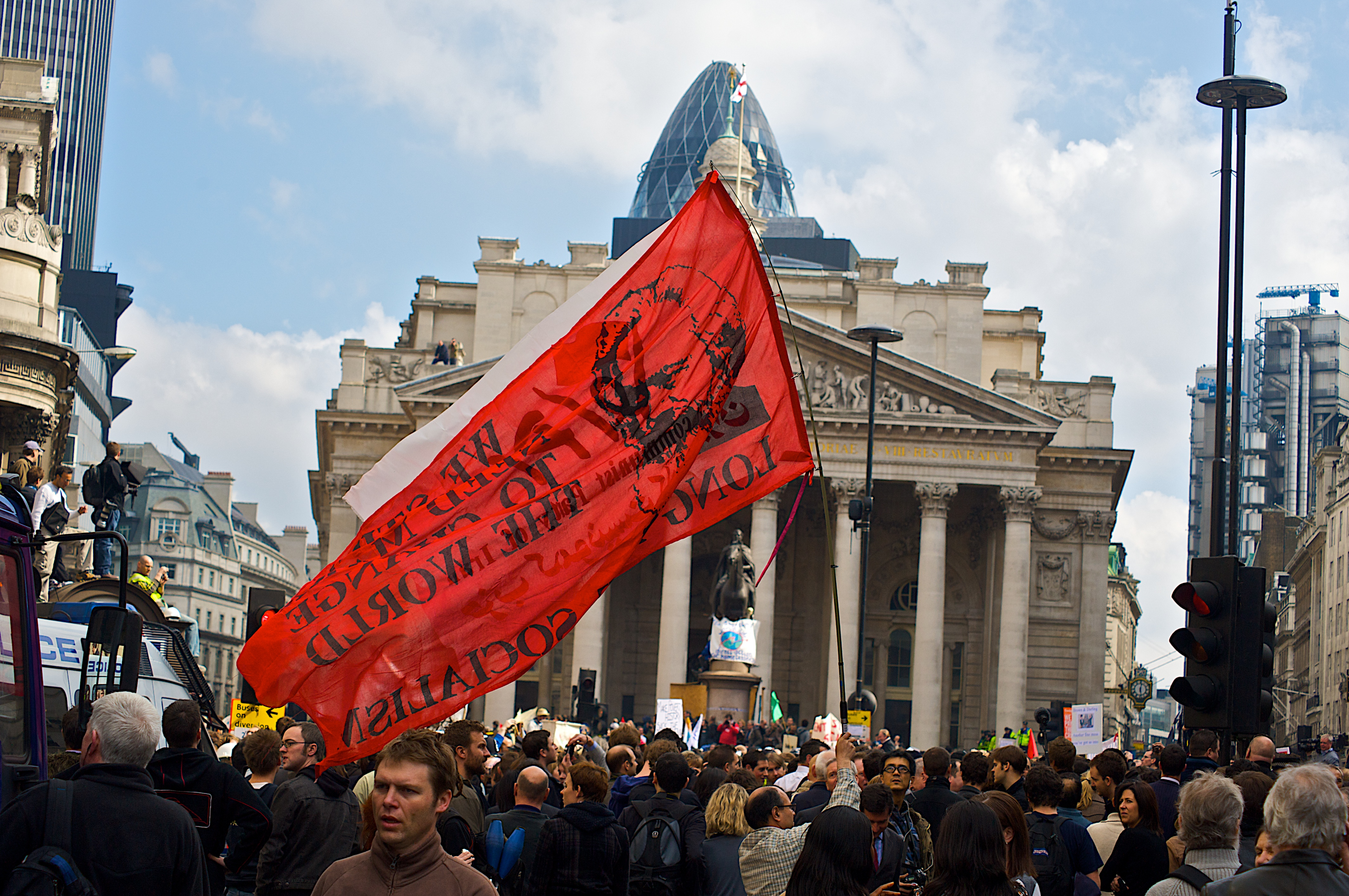 G20 London protests next to the Bank of England.